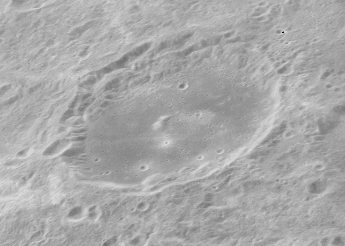 Oblique view of Hubble crater, on the moon. Brightness and contrast adjusted.